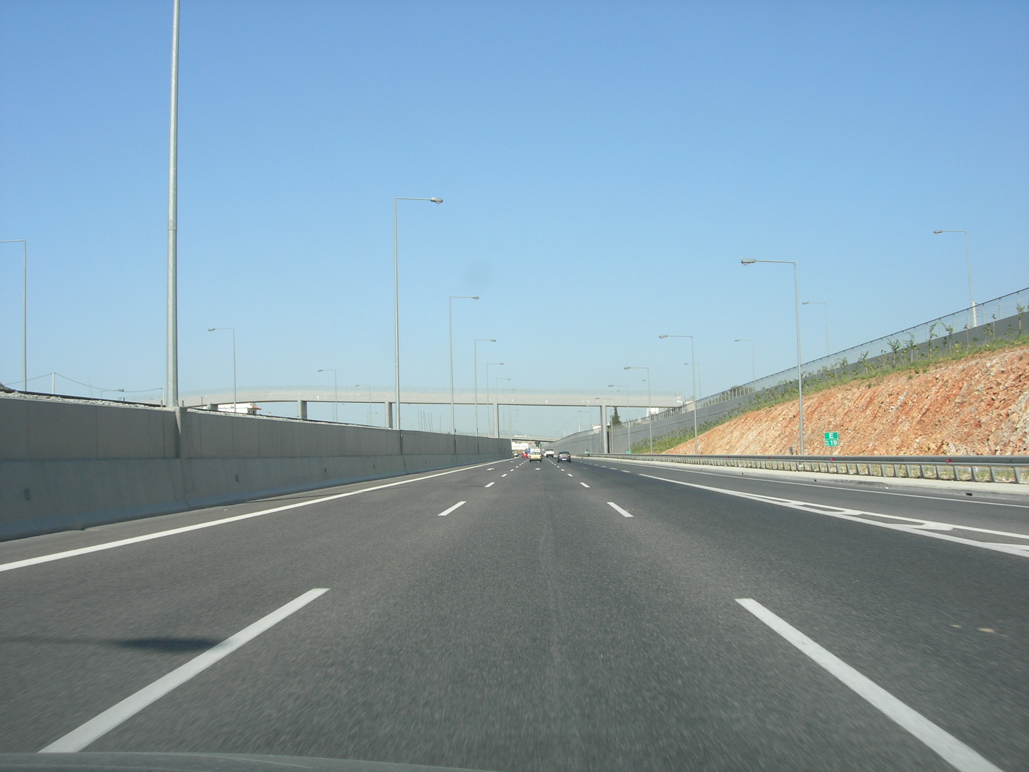 Self taken picture on August 19, 2005. It's the 19th kilometer westbound to Elefsina.